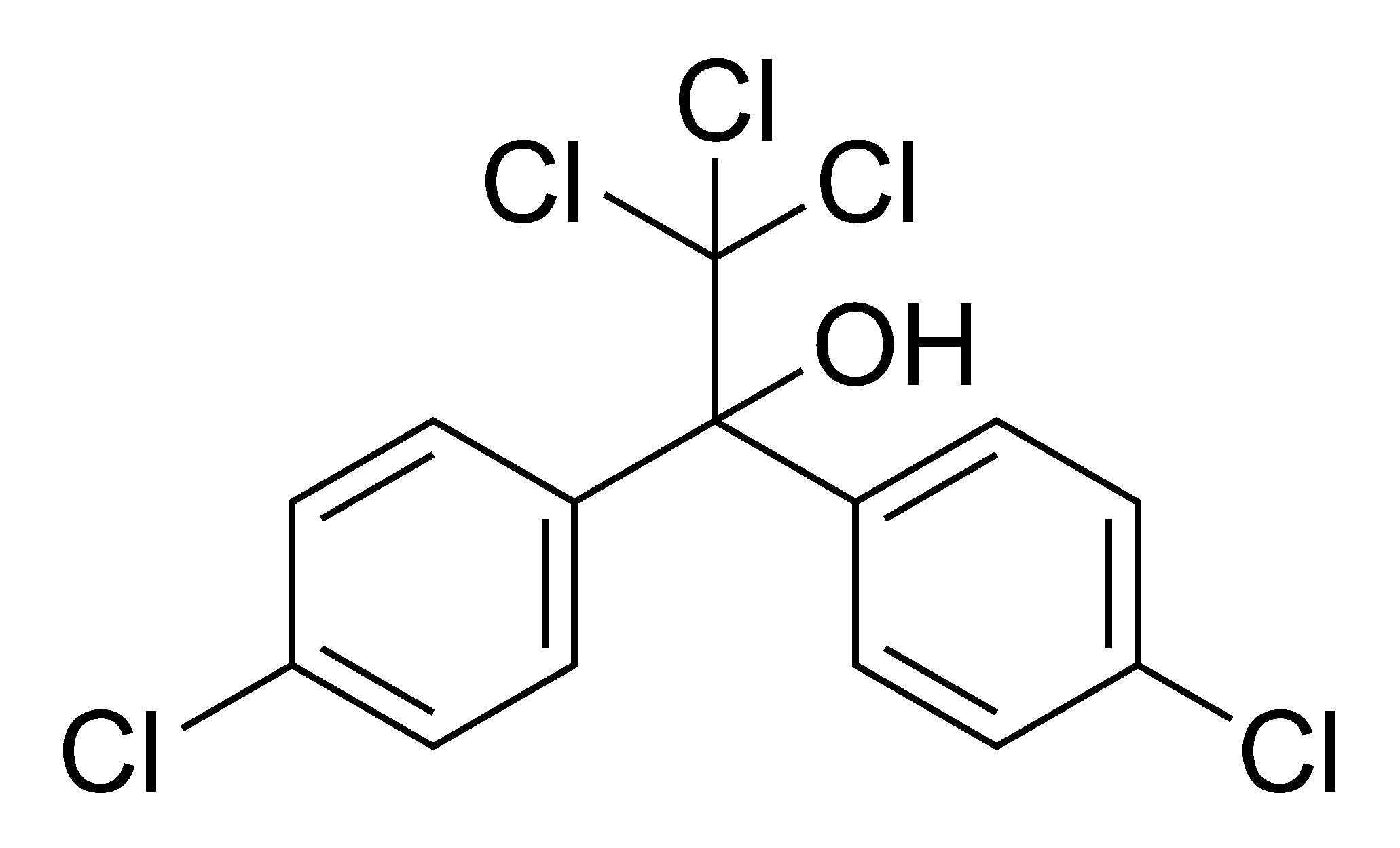 Chemical structure of dicofol